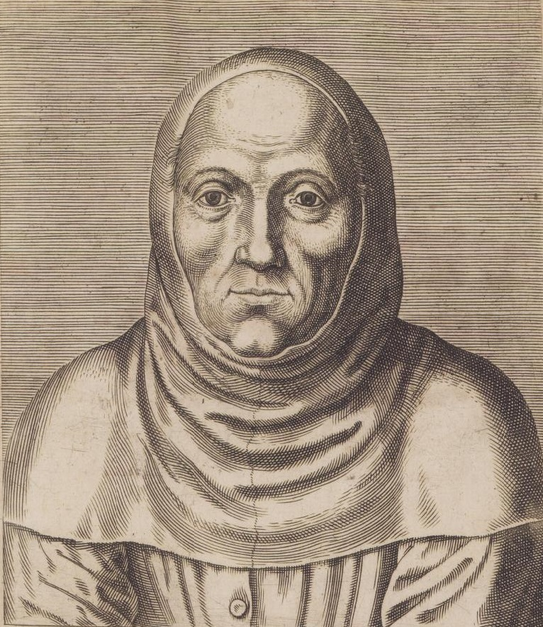 Portrait of Macropedius by Galle